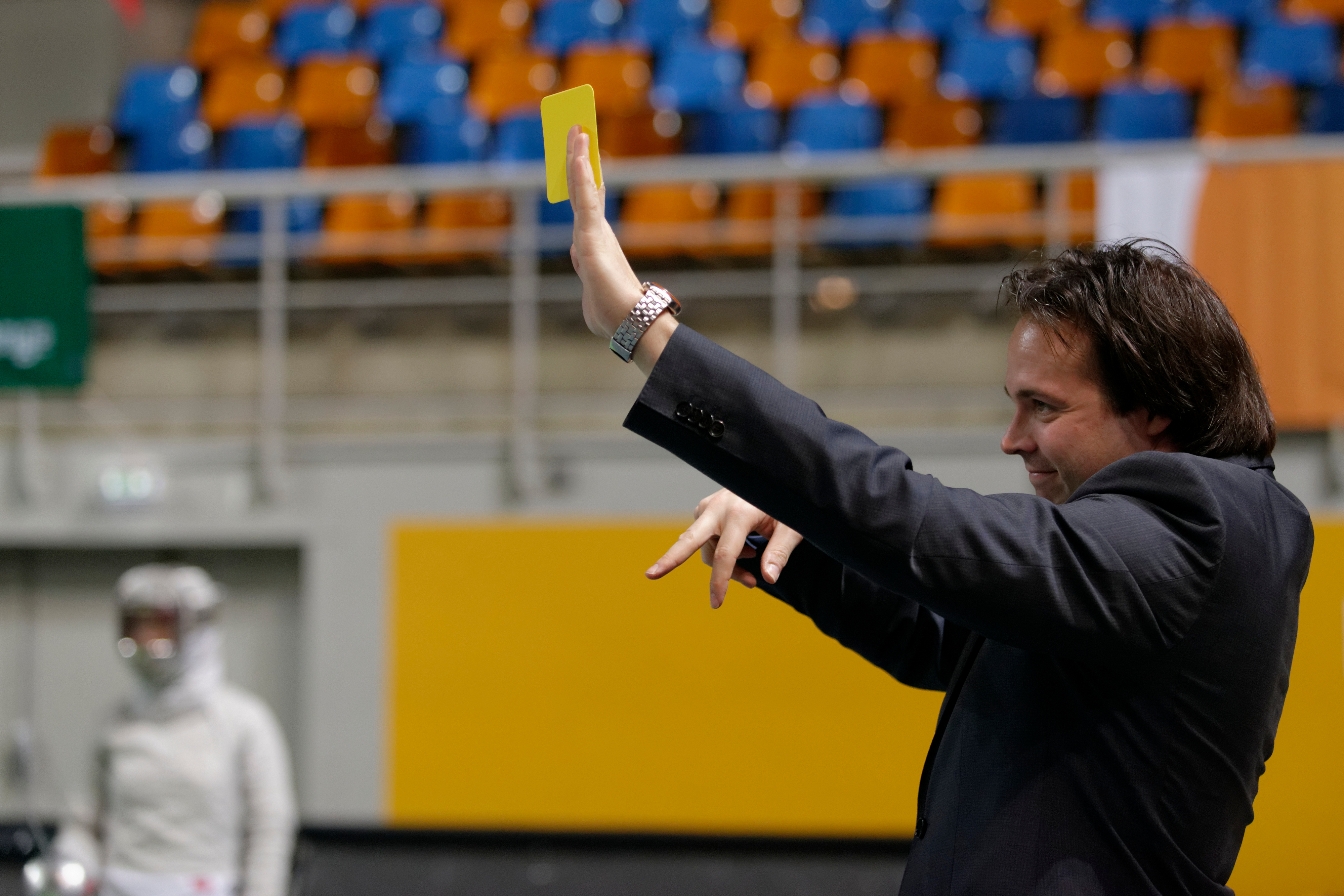 A referee shows a yellow card for an infraction to T.65 of the technical rules forbidding the flèche at the Trophée BNP Paribas-Grand Prix FIE, first stage of the women's sabre World Cup, in Orléans.